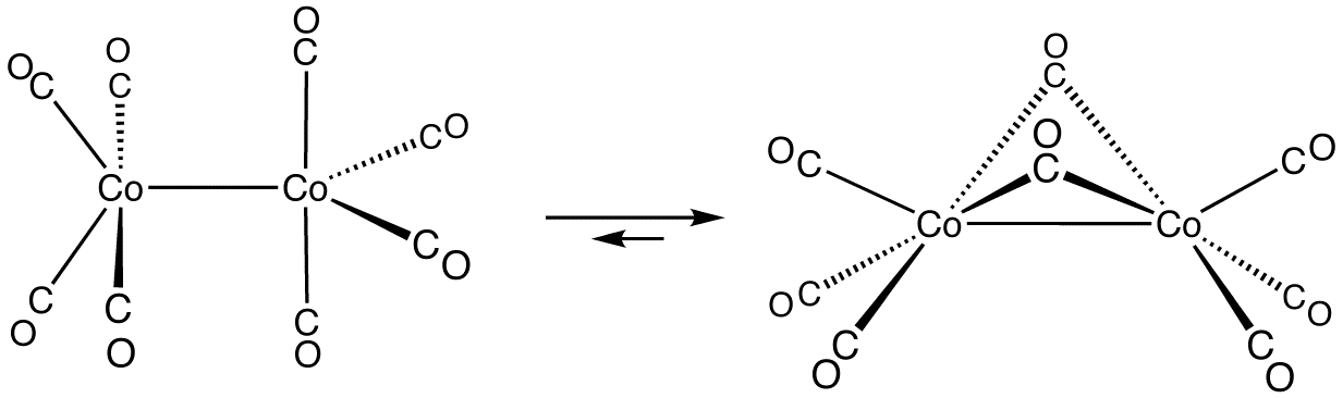 structure of cobalt carbonyl